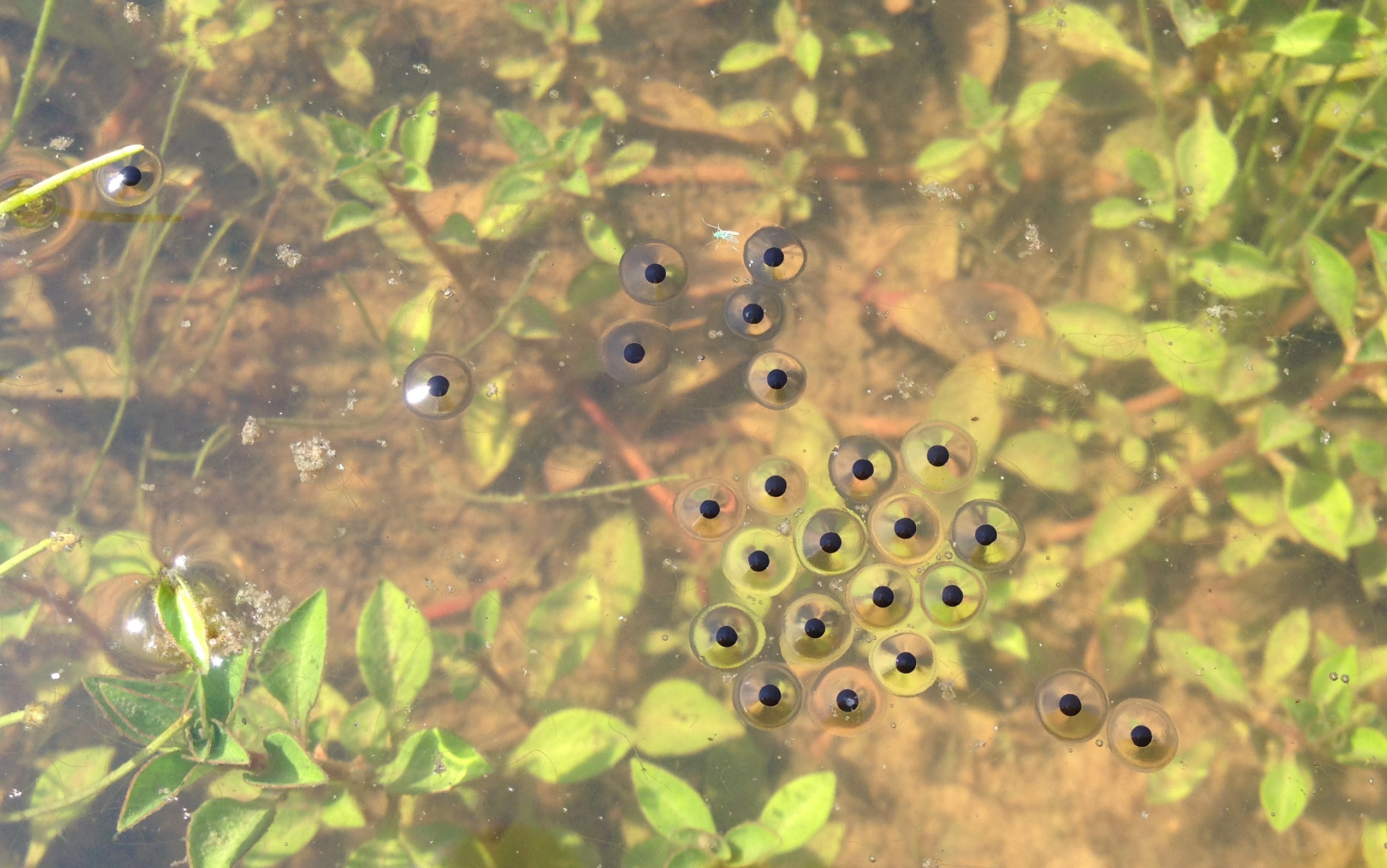 Gastrophryne carolinensis (eastern narrow-mouthed toad) eggs at the University of Mississippi Field Station.